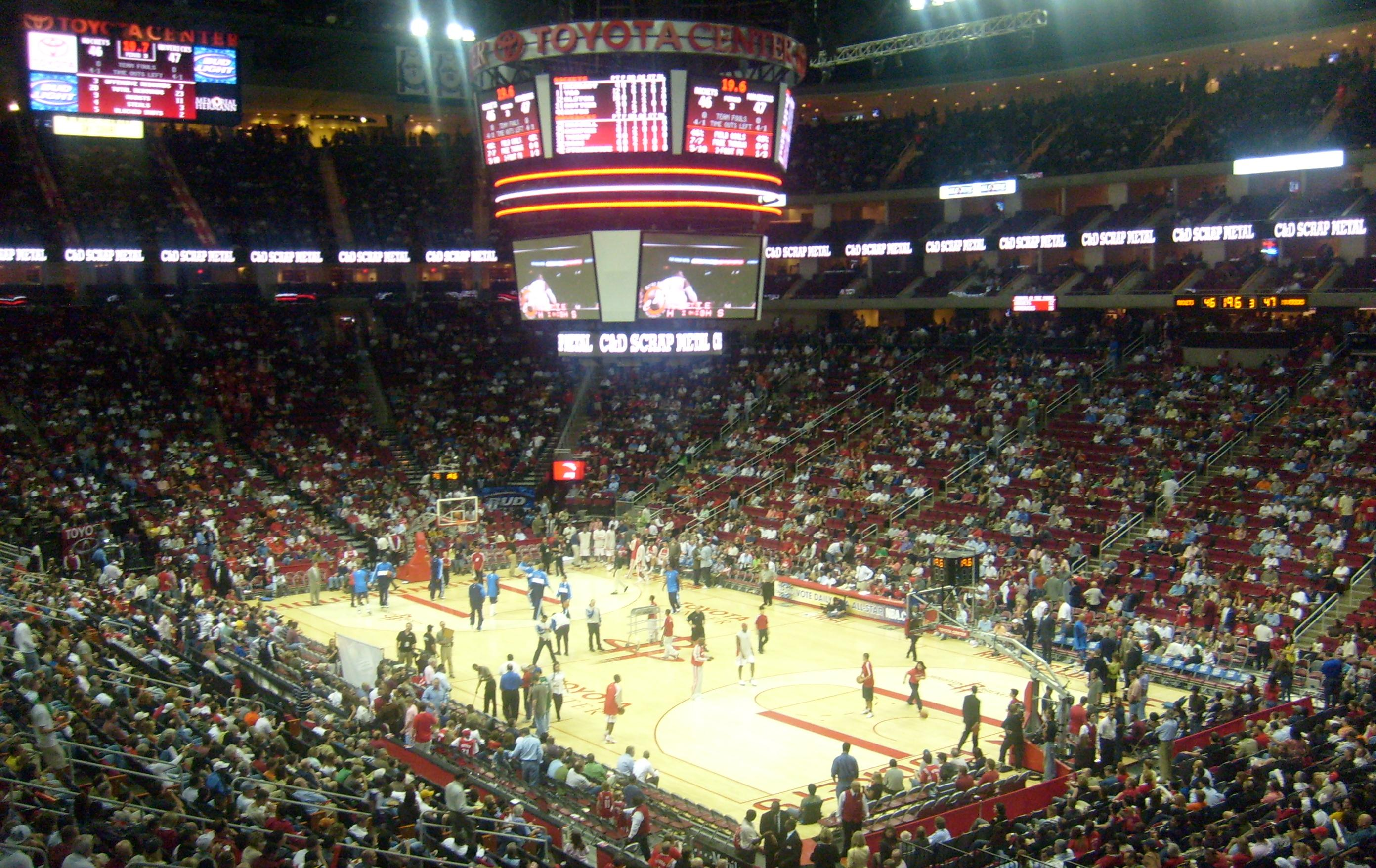 Inside the Toyota Center